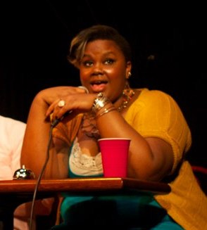 From "The Fascinator", a panel quiz show at the new UCB East Theatre, featuring Katey Healy-Wurzburg, Brett White, and Nicole Byer